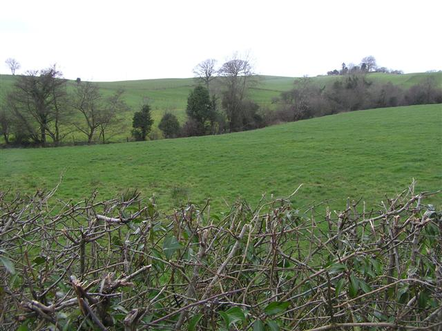 Magheracross Townland It is to the north-east of Ballinamallard.